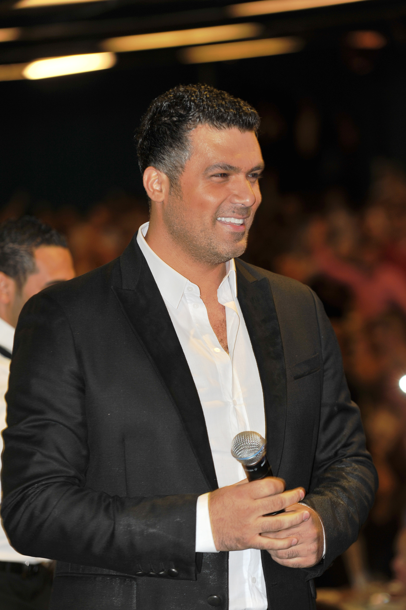 Fares Karam - Ehden Concert - August 20, 2012